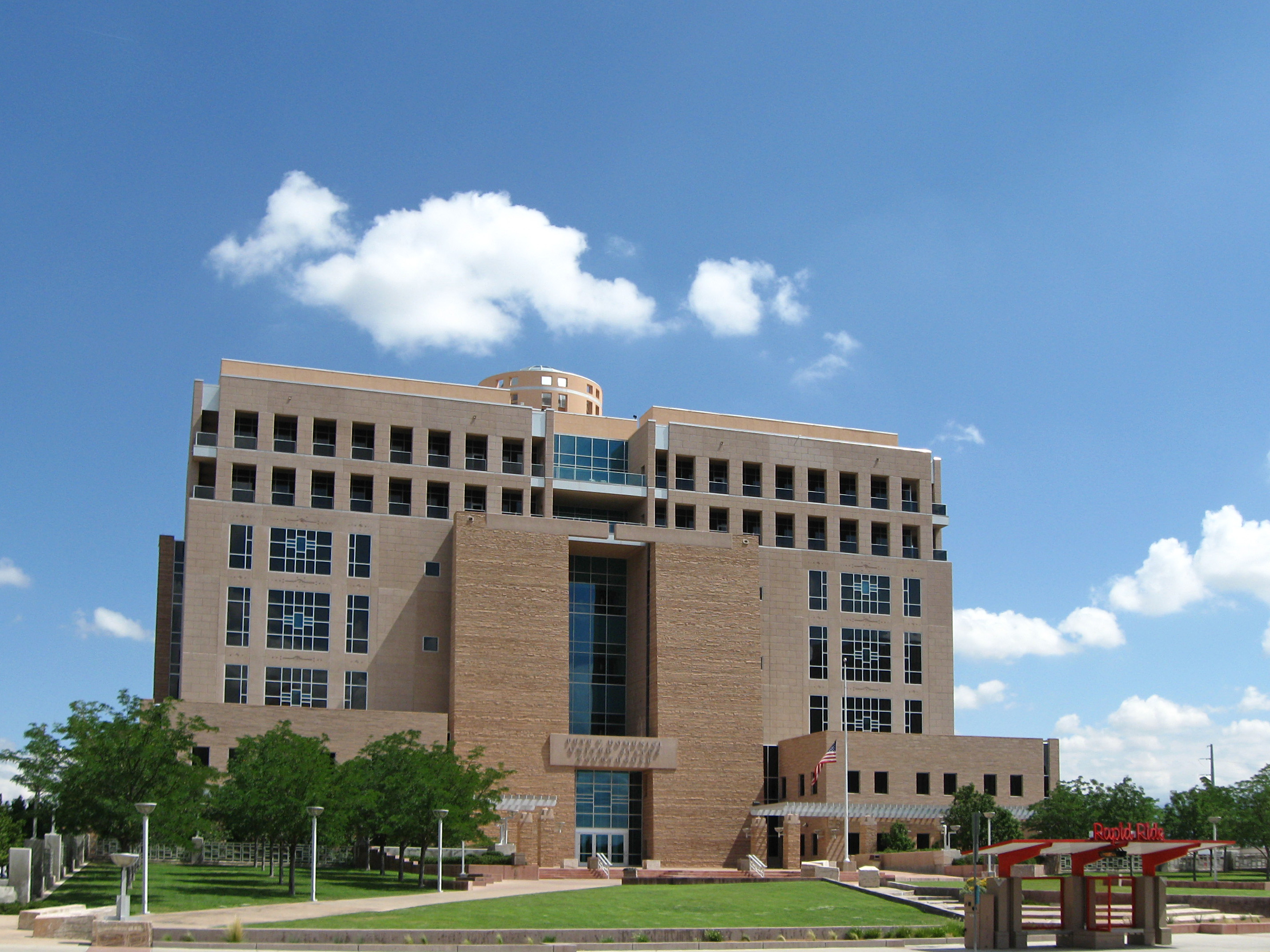 Pete V. Domenici United States Courthouse, located at 333 Lomas NW (northeast corner of Lomas and 4th Street) in Albuquerque, New Mexico.